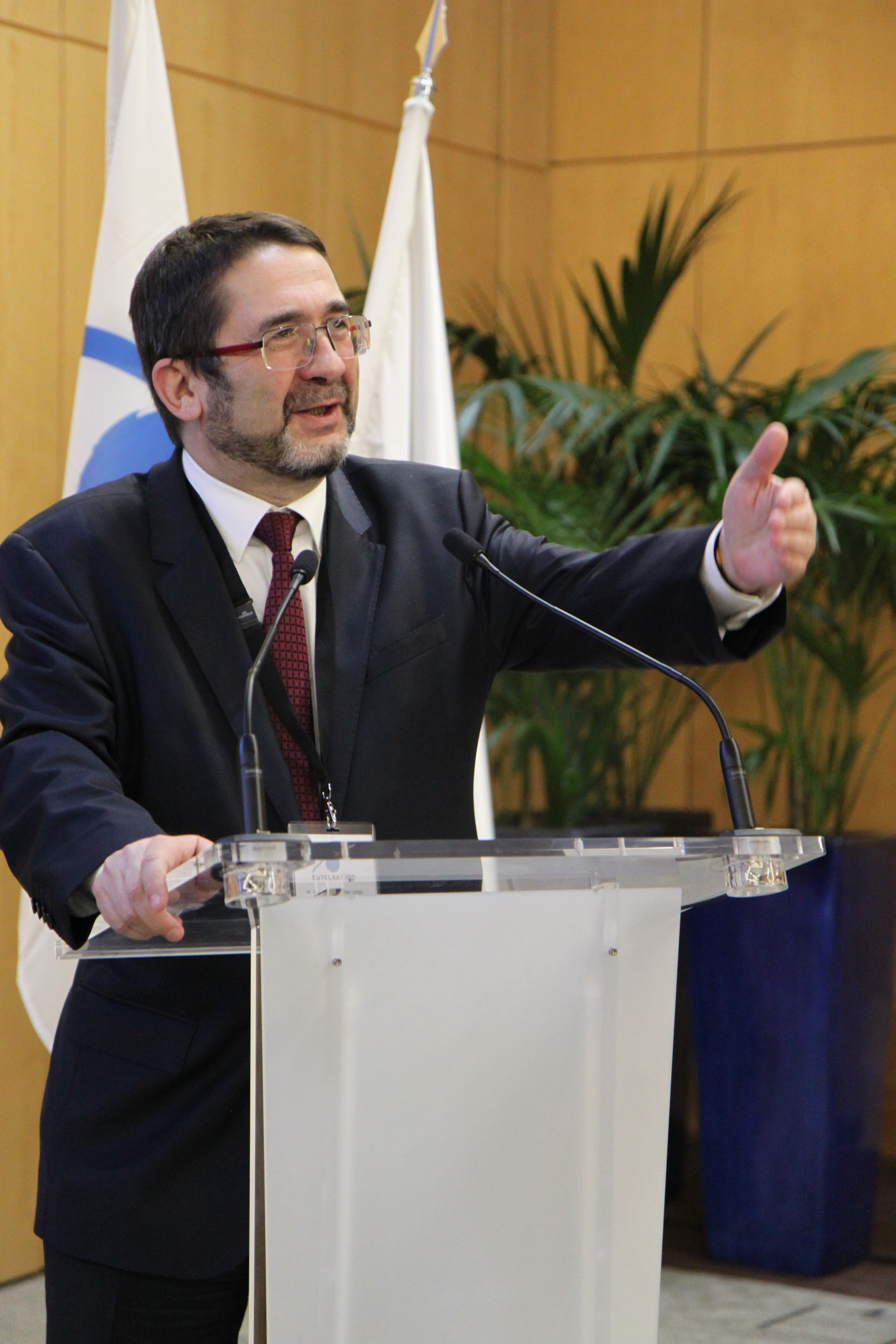 Photo of M. Piotr Dmochowski-Lipski, Executive Secretary of the European Telecommunications Satellite Organization (EUTELSAT IGO), taken at the Assembly of Parties of EUTELSAT IGO